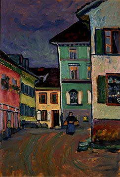 Murnau Top of the Johannisstrasse